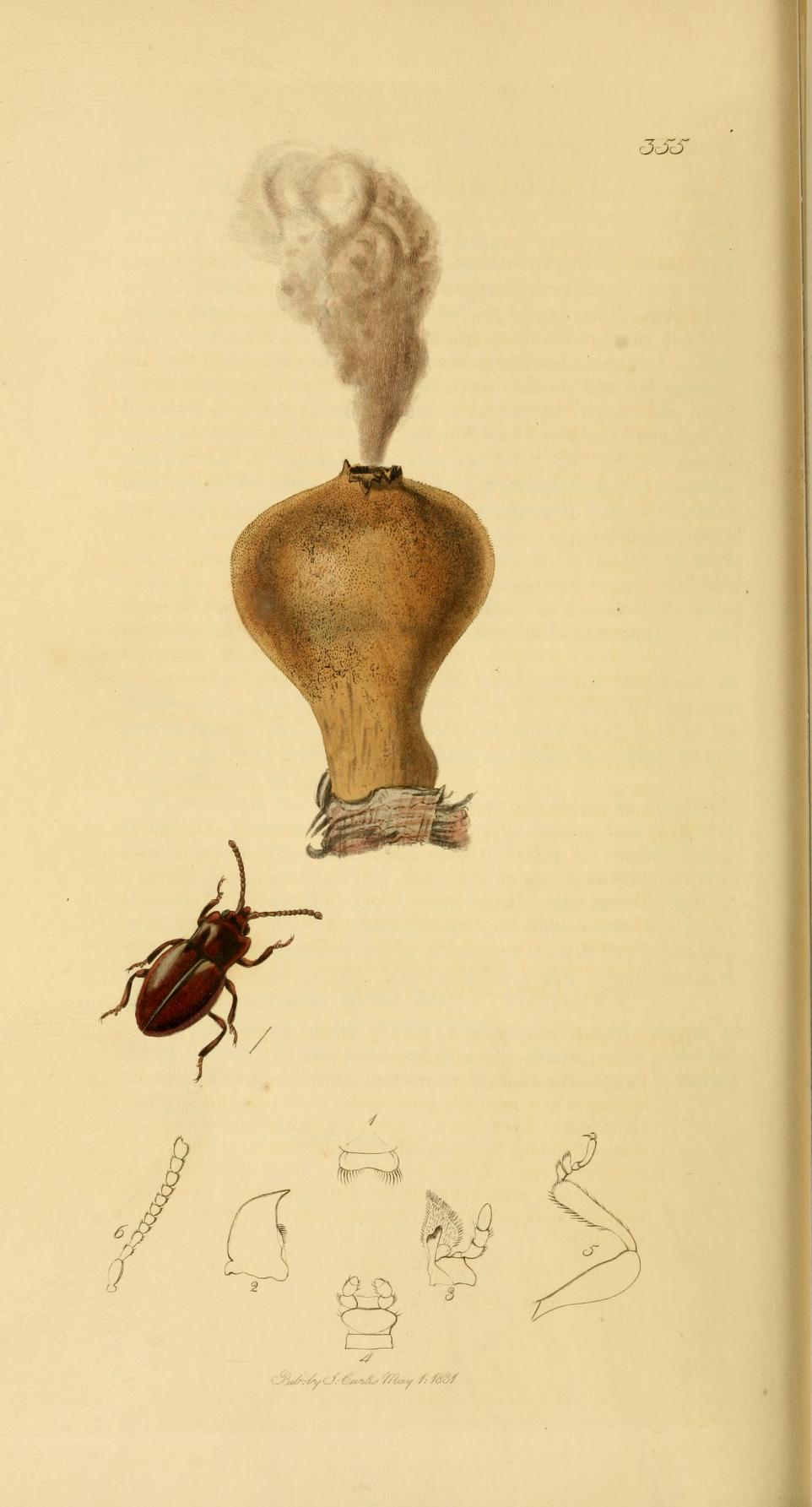 An illustration from British Entomology by John Curtis. Coleoptera: Lycoperdina bovistae (Puff-ball Beetle). The plant is Lycoperdon sp.